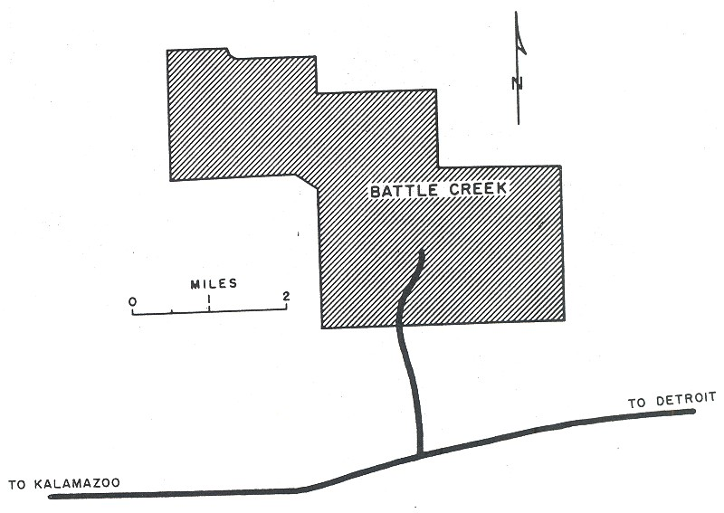 Interstates in today's terms I-94 I-194